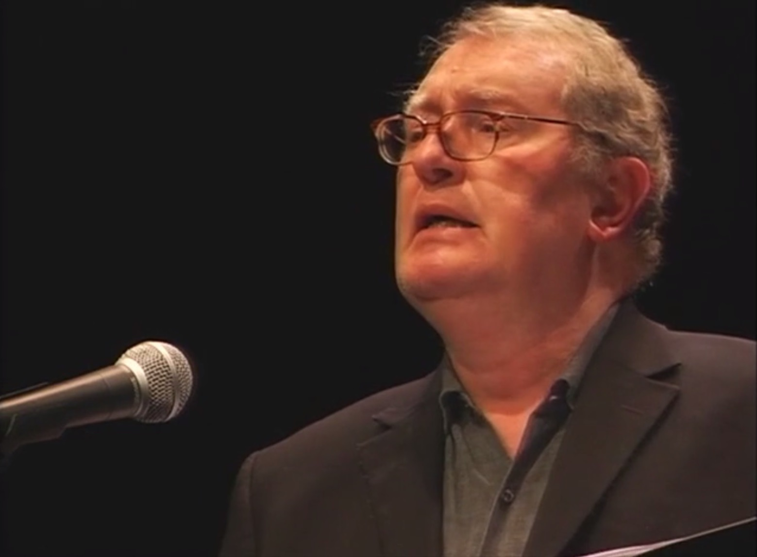 English actor Corin Redgrave reading Poems from Guantánamo: The Detainees Speak (poems written by detainees at Guantanamo Bay, Cuba) at the Center for Constitutional Rights in New York City, on December 9, 2007. Filmed by the Culture Project, New York City. Published on Vimeo September 9, 2011.